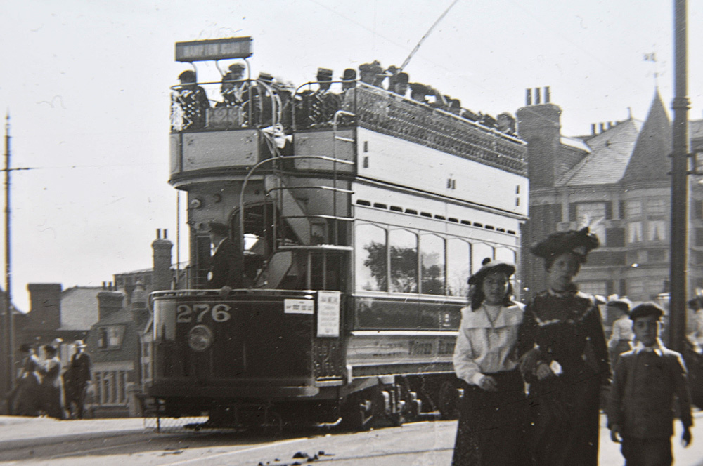 I have posted a full version of this image previously, but I was asked for a high res copy for publication in a forthcoming book about the London & South Western Railway. This prompted me to do an enhanced scan, and I thought I'd post this crop. I originally posted this on my photo identification and dating website What's That Picture? over three years ago and from there have determined: - the picture is taken from Broad Sreet, on the bridge over the railway, looking down Park Road on the left, towards the railway station - from the clothing this dates to very early 1900s, probably c. 1905